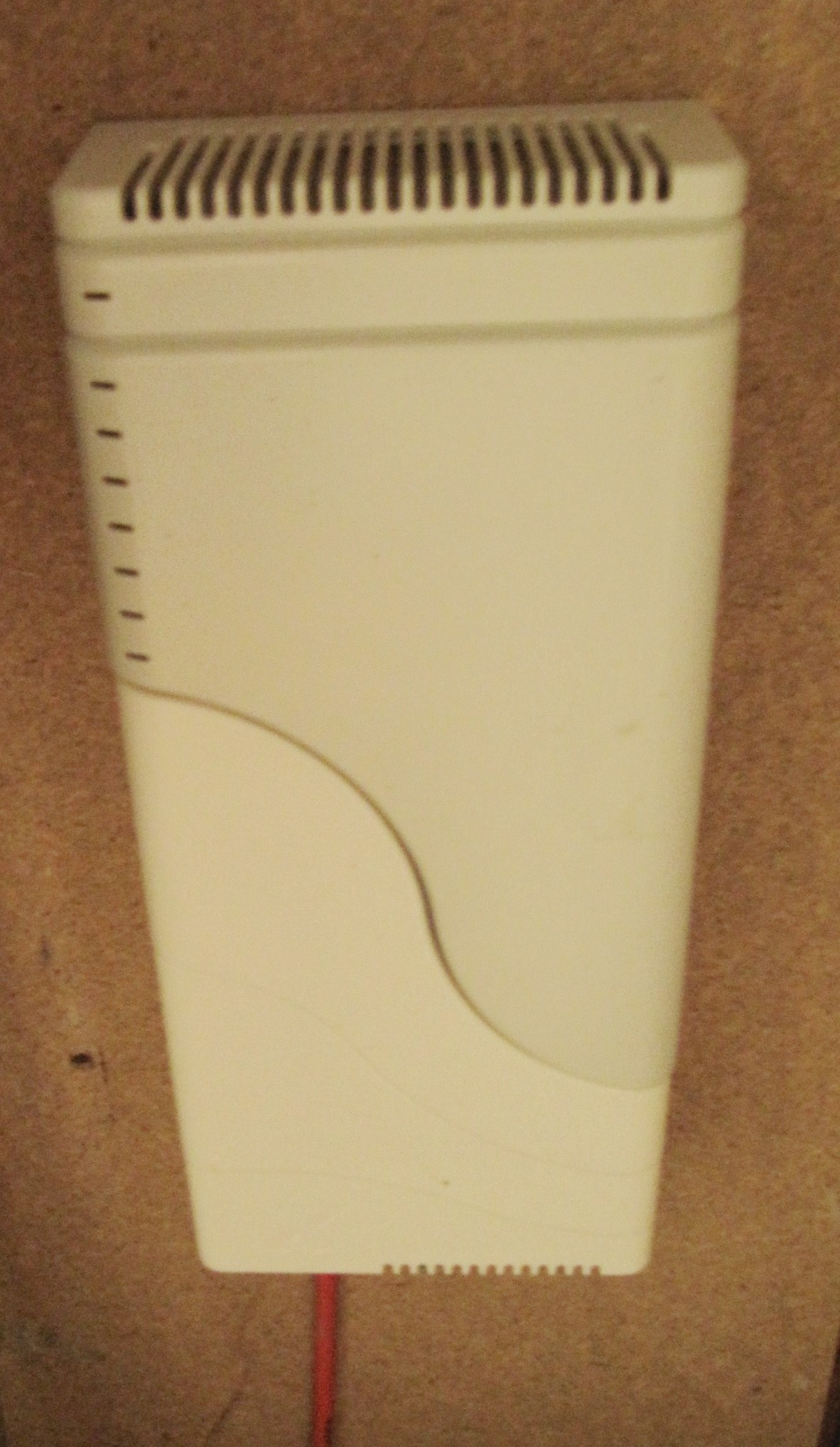 Fiber termination unit